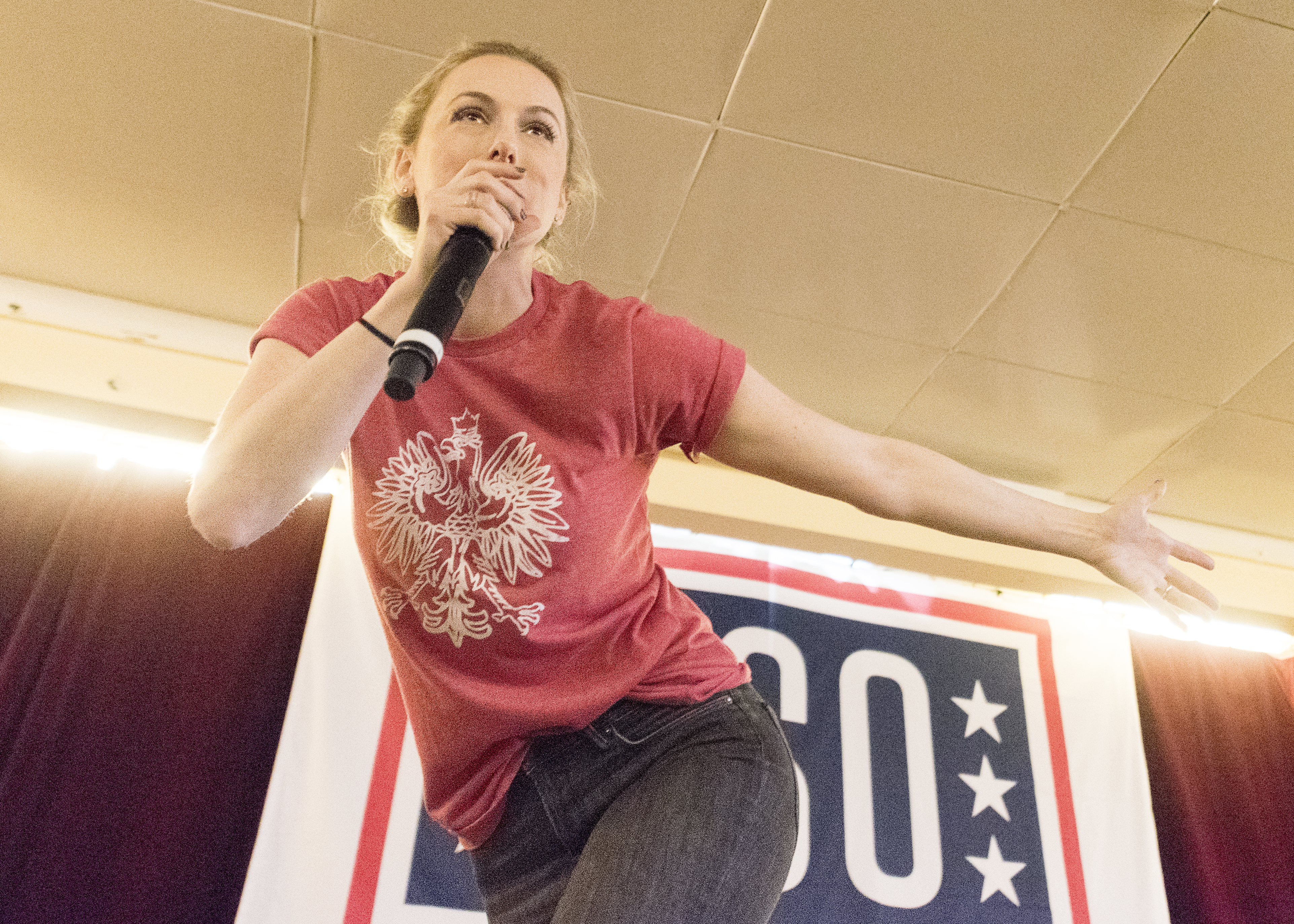 Comedian Iliza Shlesinger performs for soldiers and airmen from Atlantic Resolve Forces during the USO Holiday Tour in Powidz, Poland Dec. 26, 2017. Dunford and Troxell, along with USO entertainers, visited service members who are deployed during the holidays. This year’s entertainers are Chef Robert Irvine, wrestler Gail Kim, comedian Iliza Shlesinger, actor Adam Devine, country musician Jerrod Niemann, and WWE Superstars “The Miz” and Alicia Fox. (DoD photo by Navy Petty Officer 1st Class Dominique A. Pineiro/Released)